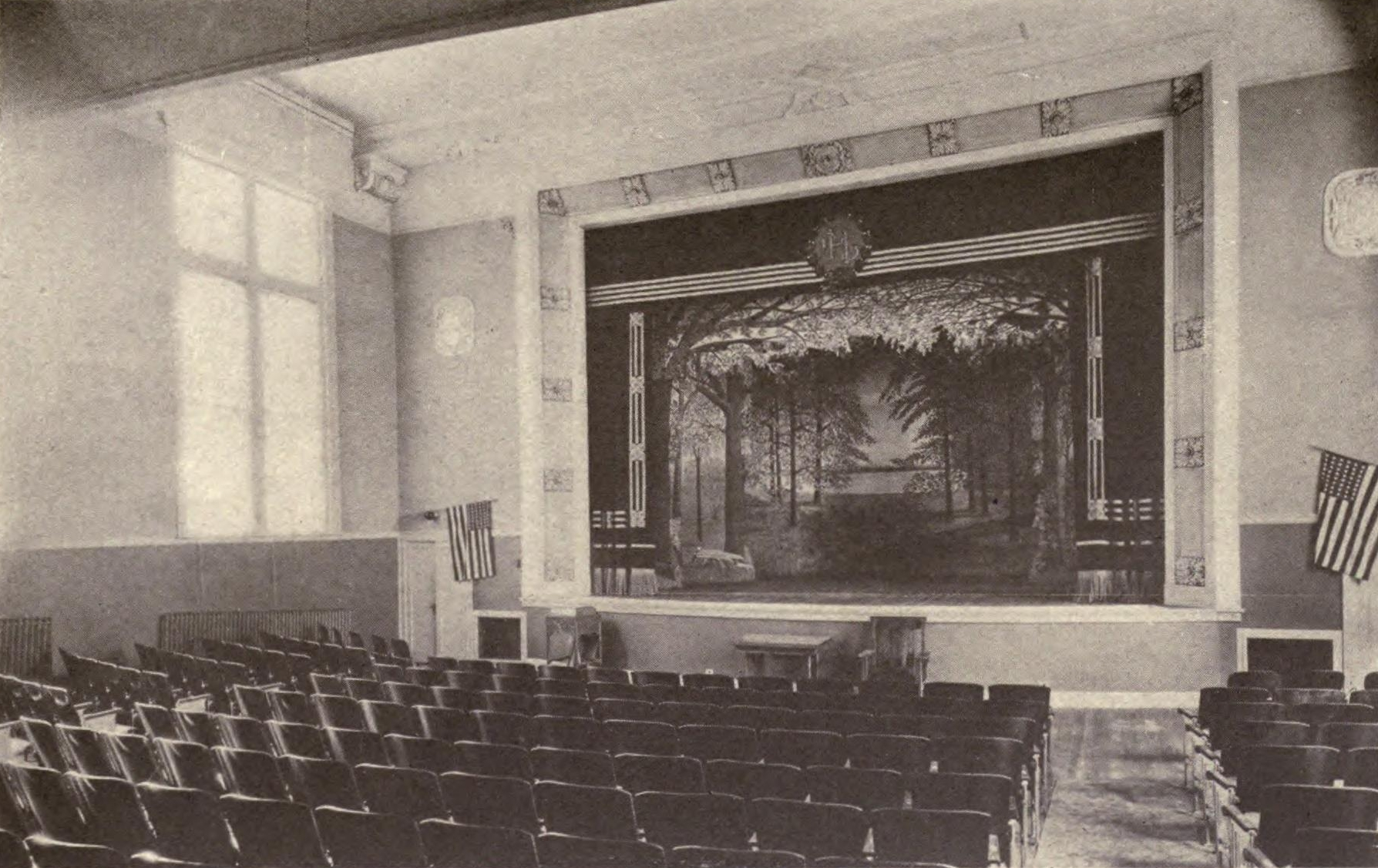 Interior of the auditorium of the Durango High School in Durango, Colorado. Listed on the National Register of Historic Places, it is now the district administration building.